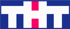 Second logo of TNT russian channel